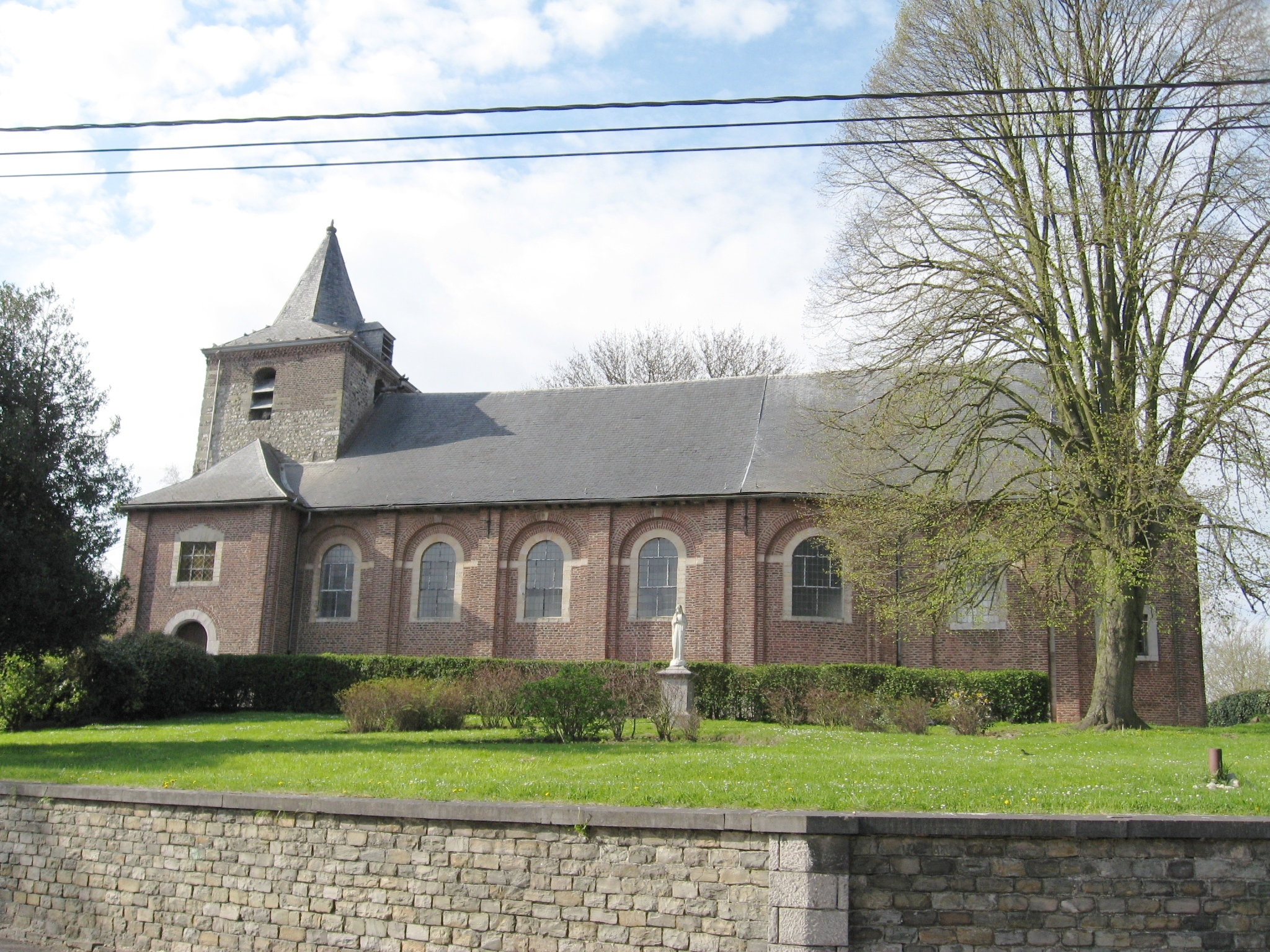 Church of Saint Denis in Oleye, Waremme, Liège, Belgium